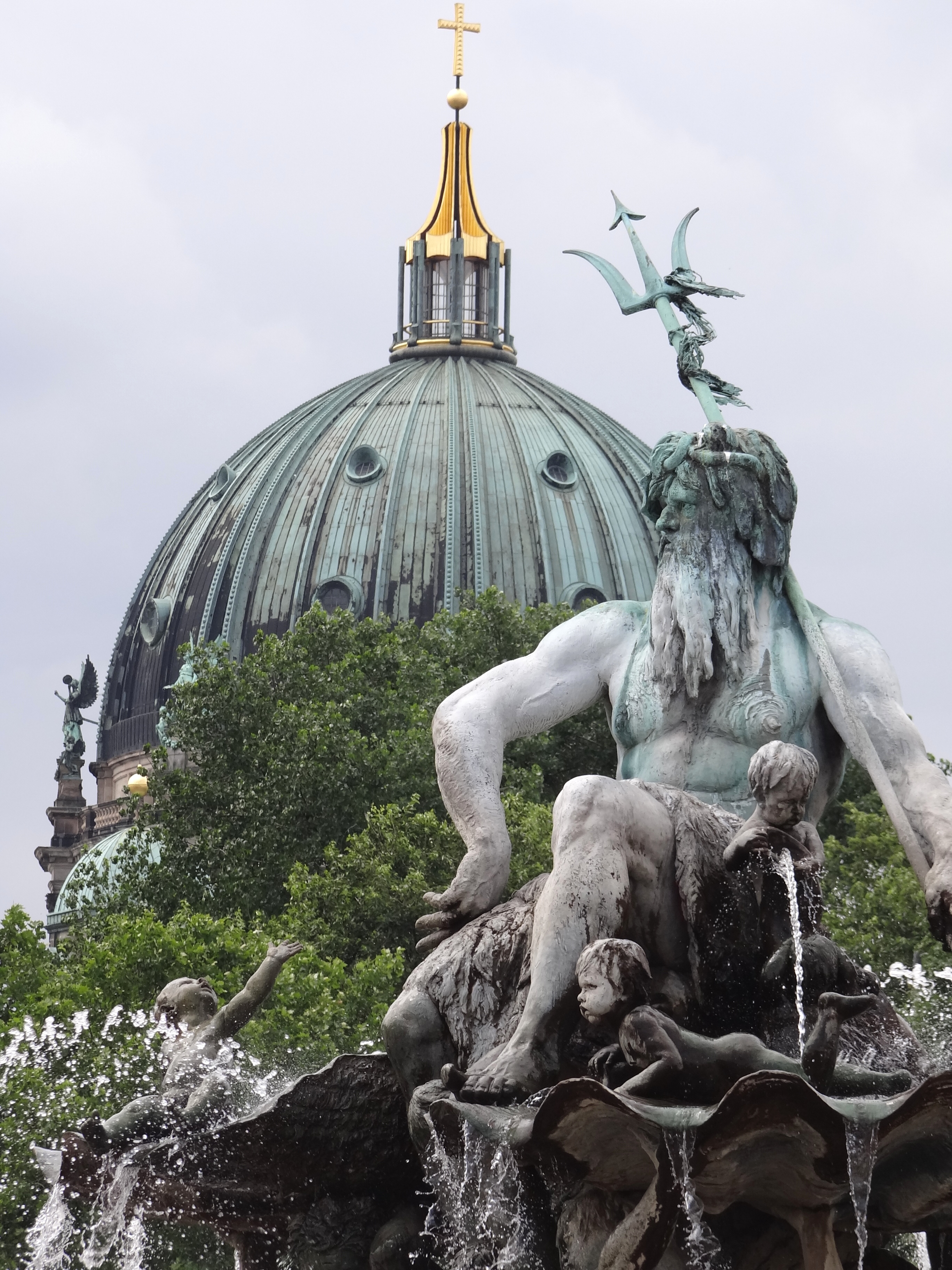 Alexanderplatz Scene - Eastern Berlin - Germany - 02